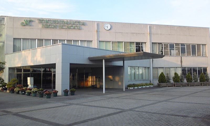 This is a picture of "Tokushimakita Senior High School's official building".